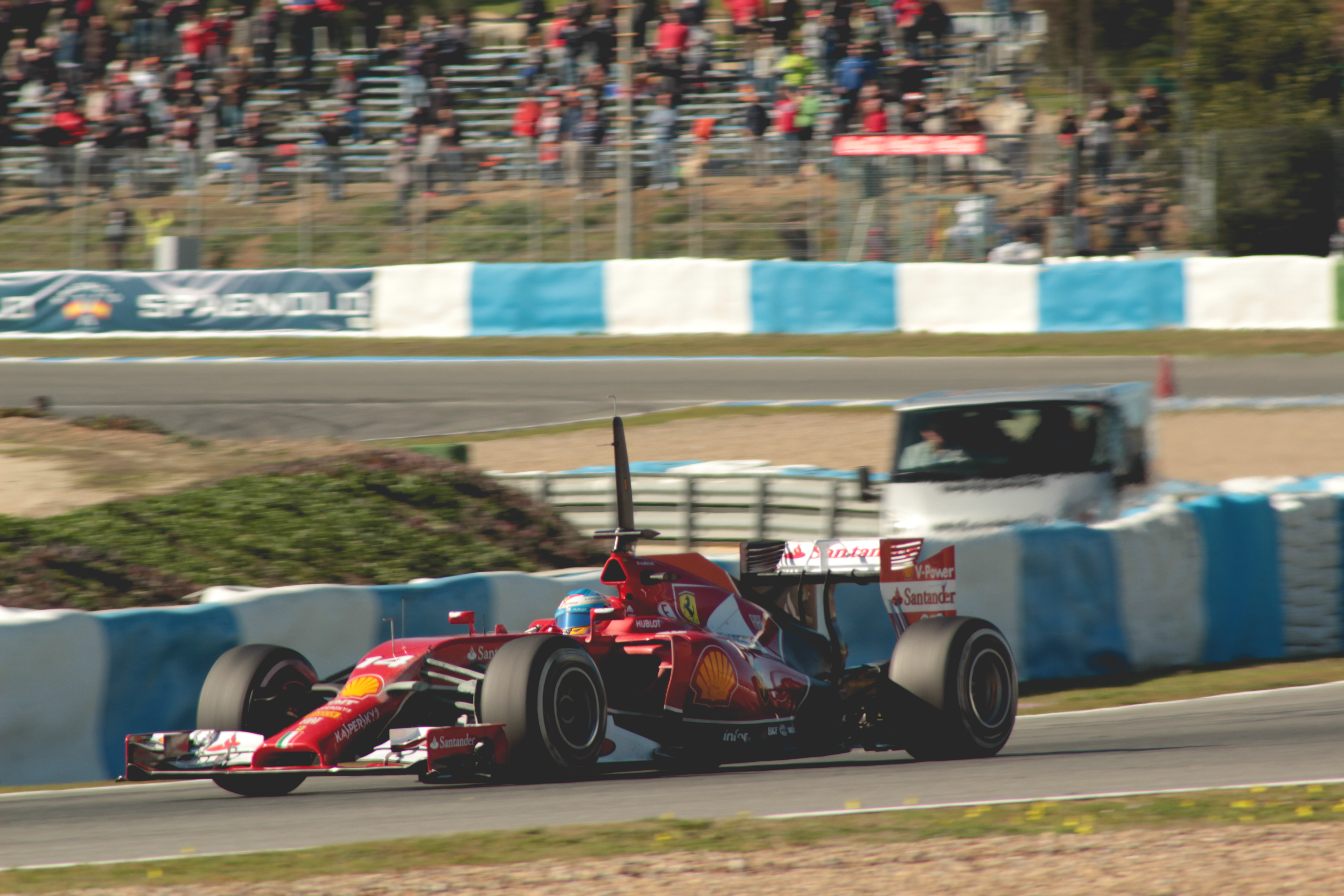 Fernando Alonso (Ferrari)